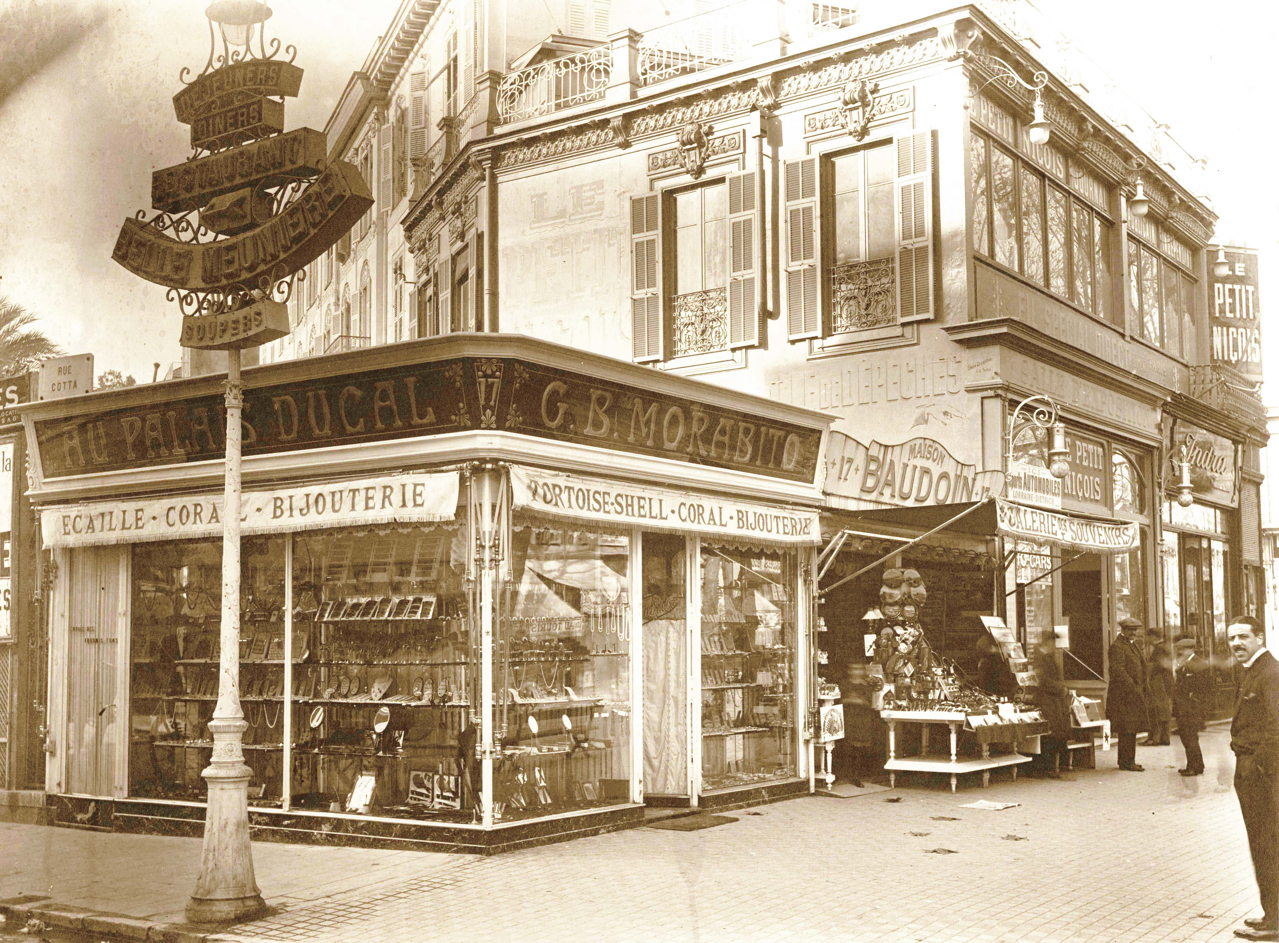 Morabito Boutique Nice